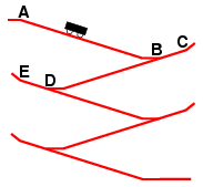 Diagram of a gravity incline (railway), with labels, illustrating the use of switchbacks (zig-zags). Created by User:J. Johnson, following figure 311 of Arthur Mellen Wellington's The economic theory of the location of railways (Sixth edition John Wiley & Sons, New York: 1904. p. 945).